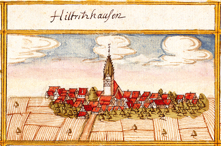 View of Hildrizhausen from the forest register books created by Andreas Kieser